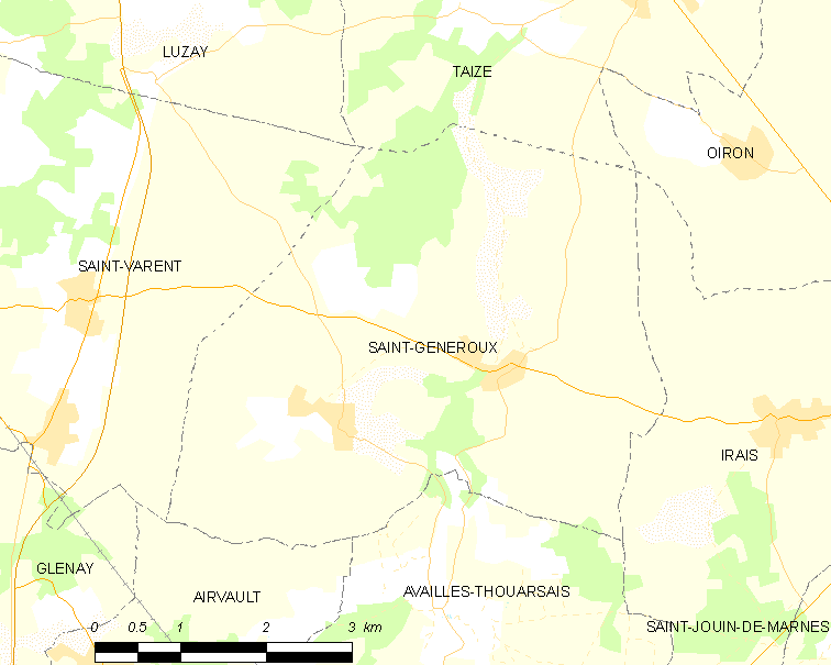 Map of French municipality Saint-Généroux